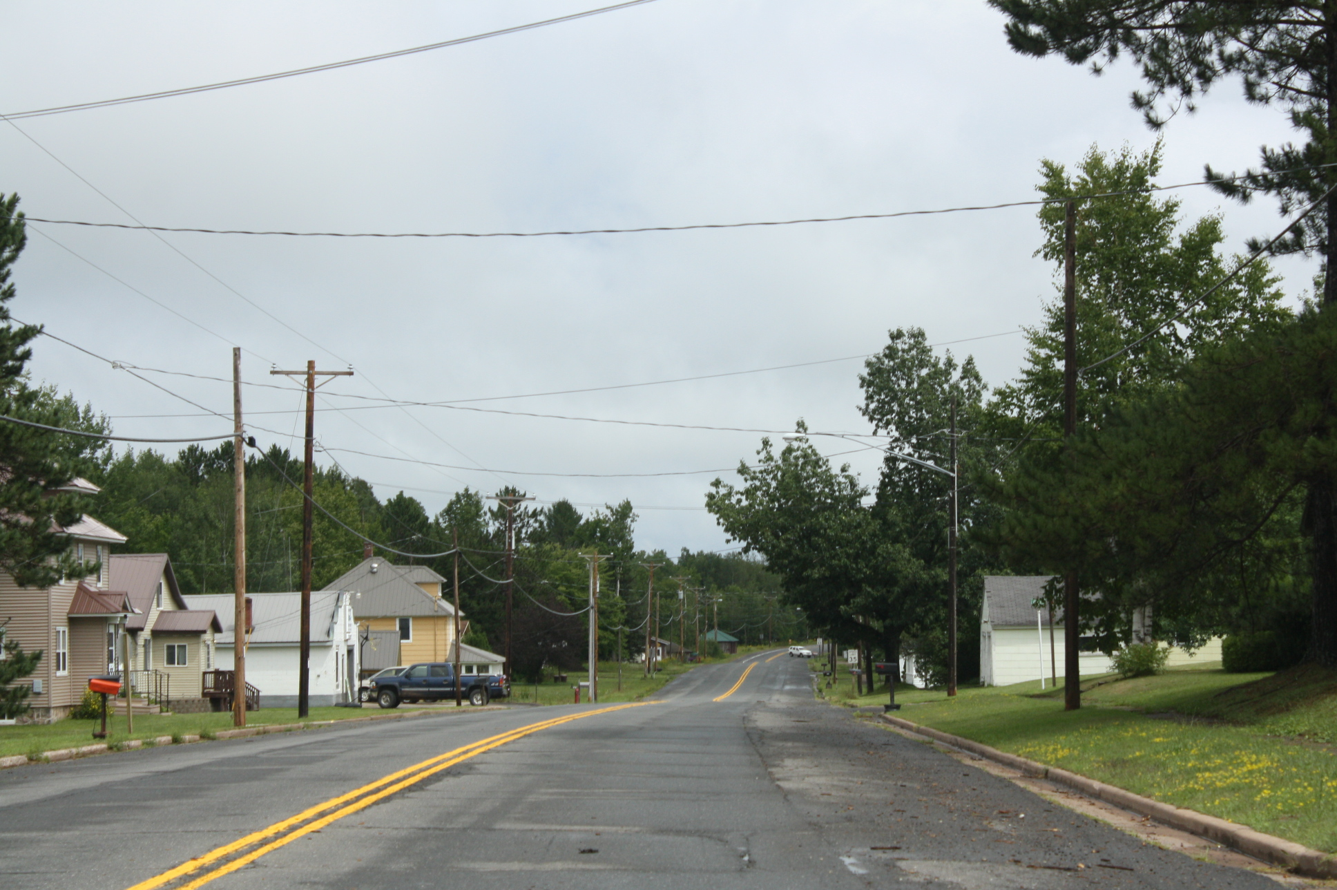 Looking east in downtown Pence (CDP), Wisconsin on Wisconsin Highway 77.